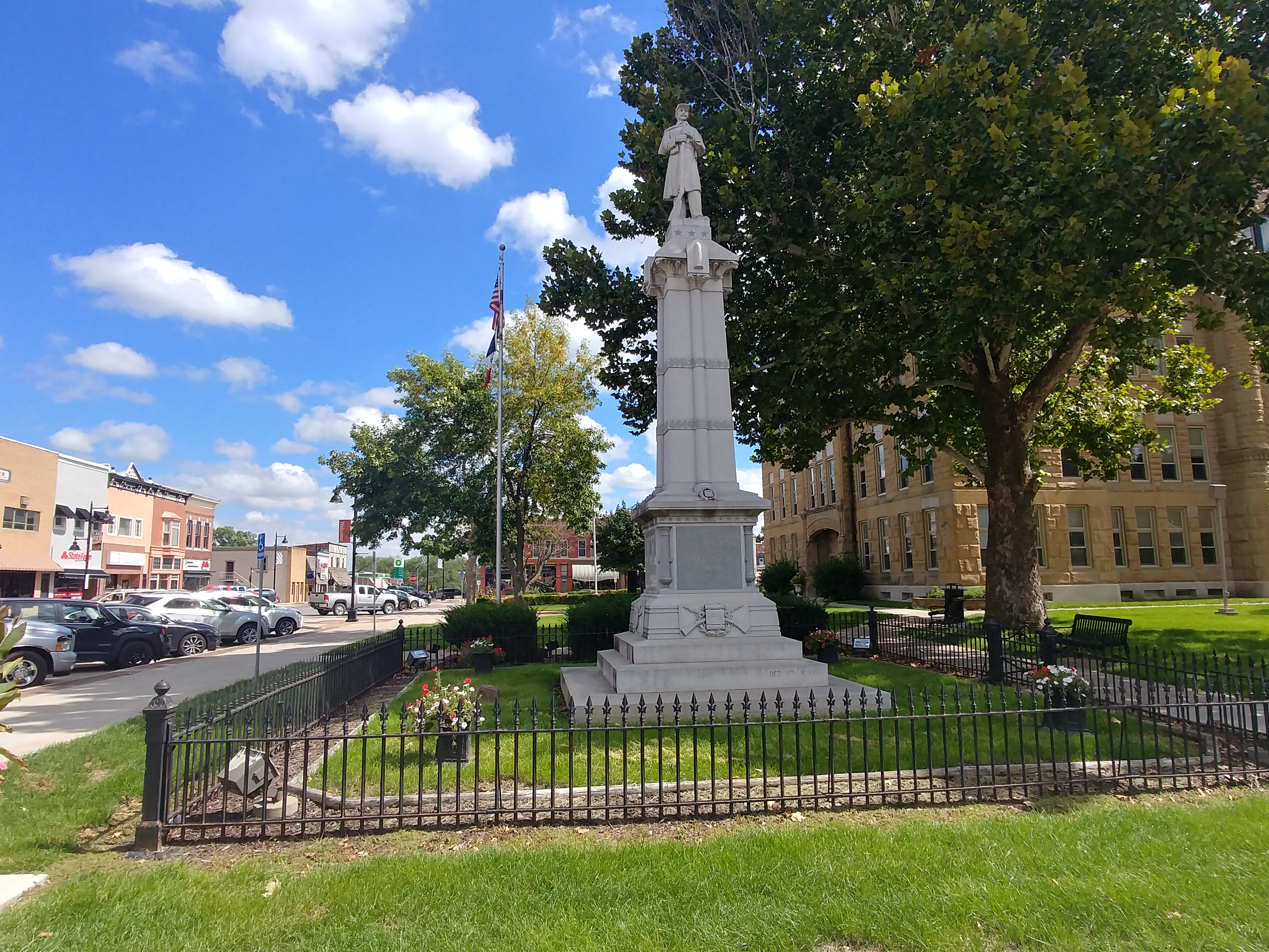 Civil War monument on the grounds on the Marion County Courthouse in Knoxville, Iowa.